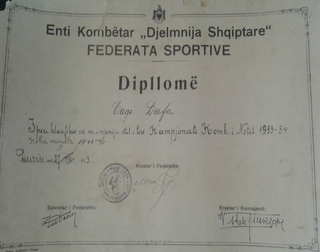 1000 m viti 1933